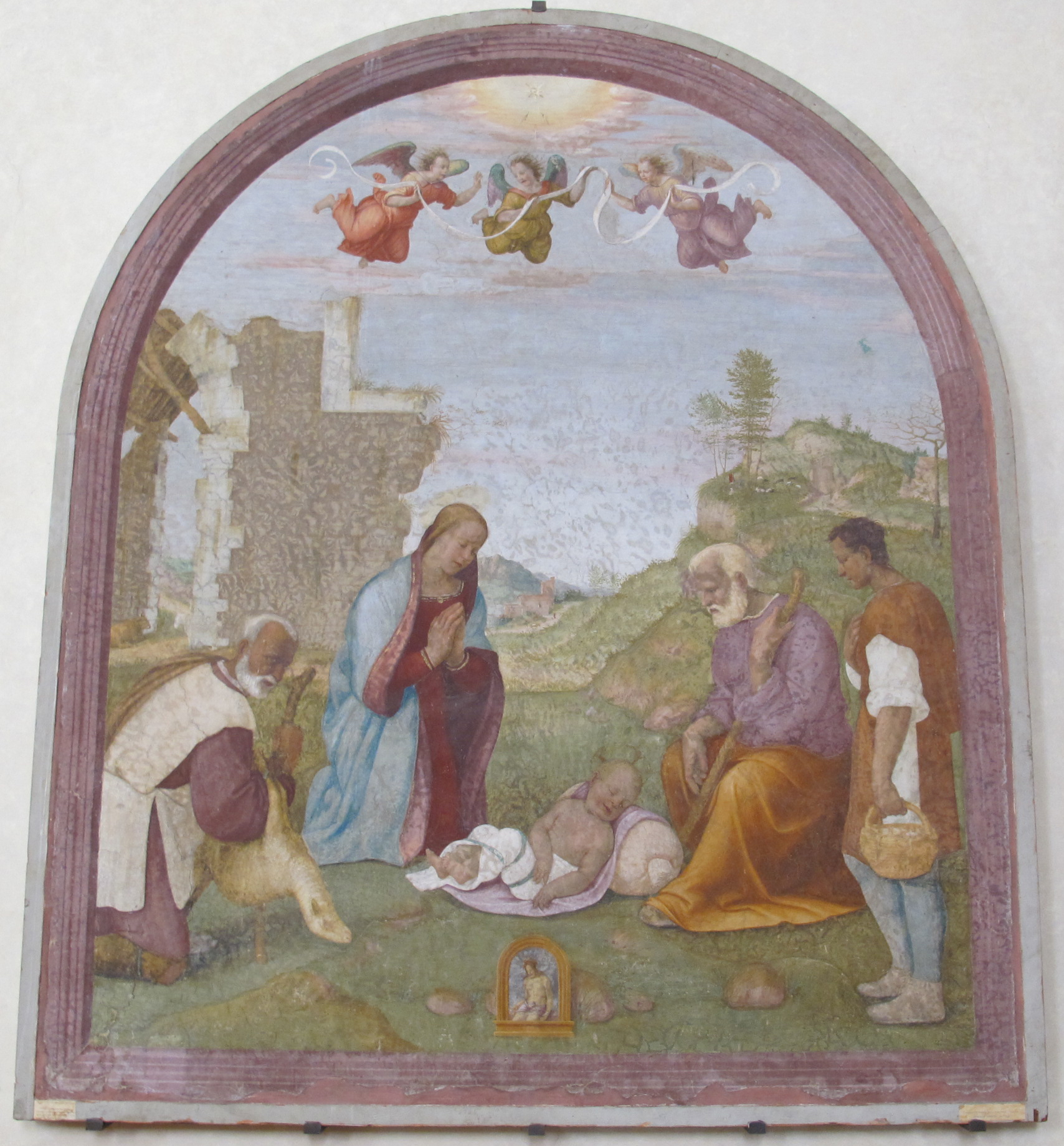 San Salvi museum, mannerism painting, in Florence, Italy